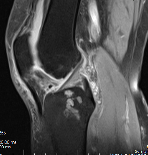 Knee MRI